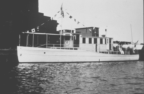 United States Coast and Geodetic Survey launch USC&GS Mikawe, dressed to celebrate Independence Day